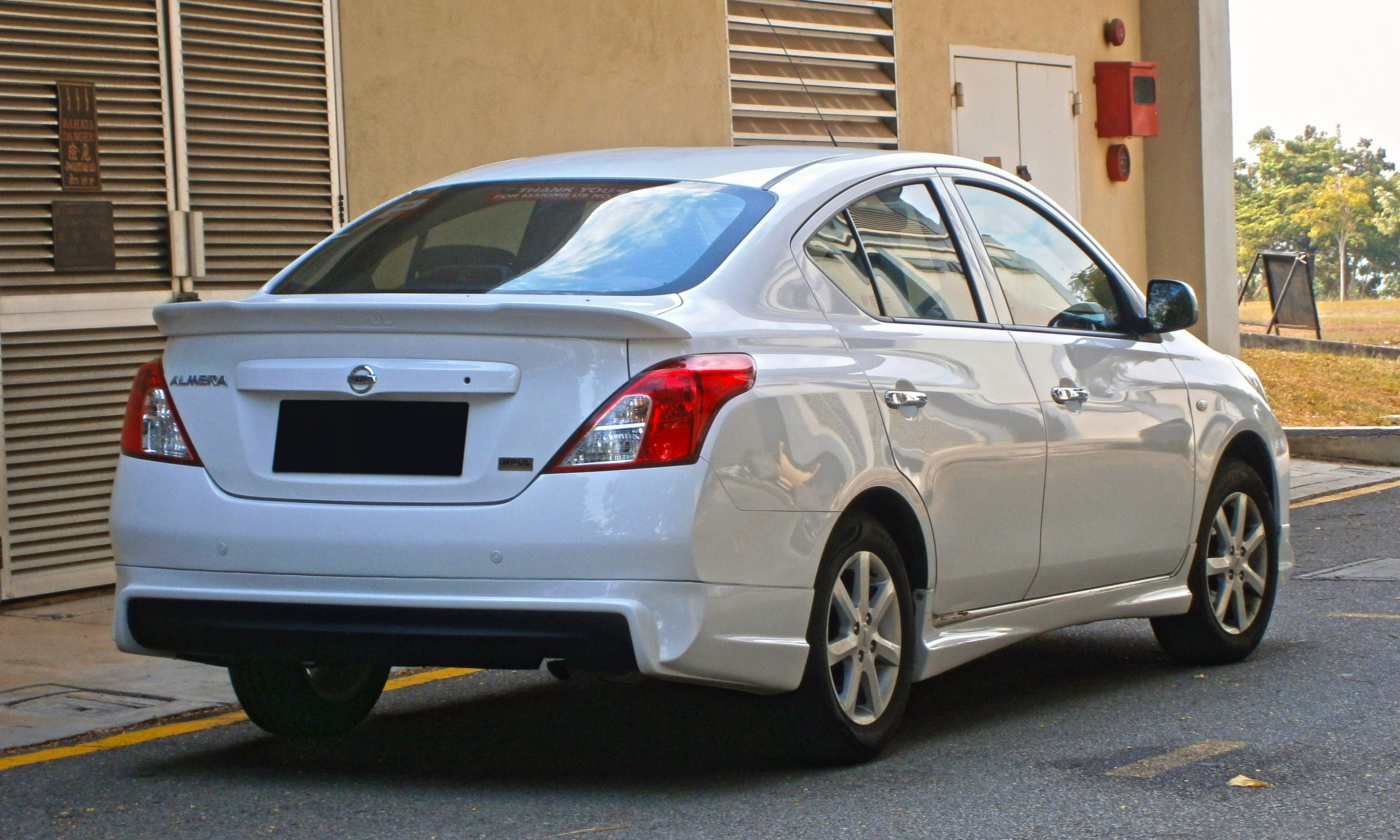 2013 Nissan Almera 1.5L V Sedan (with opt. Impul bodykit) in Cyberjaya, Malaysia.